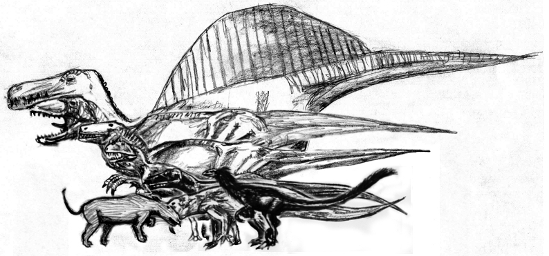 Size comparison of examples of the largest predators from various clades and time periods: Sarcosuchus (blue), Spinosaurus (black), Saurophaganax (gold), Andrewsarchus (orange), Megalania (light green), Allosaurus (yellow) and Kelenken (dark green). Kelenken based on "A New Phorusrhacid (Aves: Cariamae) from the Middle Miocene of Patagonia, Argentina", Varanus priscus silhouette from "Dragon’s Paradise Lost: Palaeobiogeography, Evolution and Extinction of the Largest-Ever Terrestrial Lizards (Varanidae)", Sarcosuchus silhouette based on image from Phylopic by Smokeybjb (source)